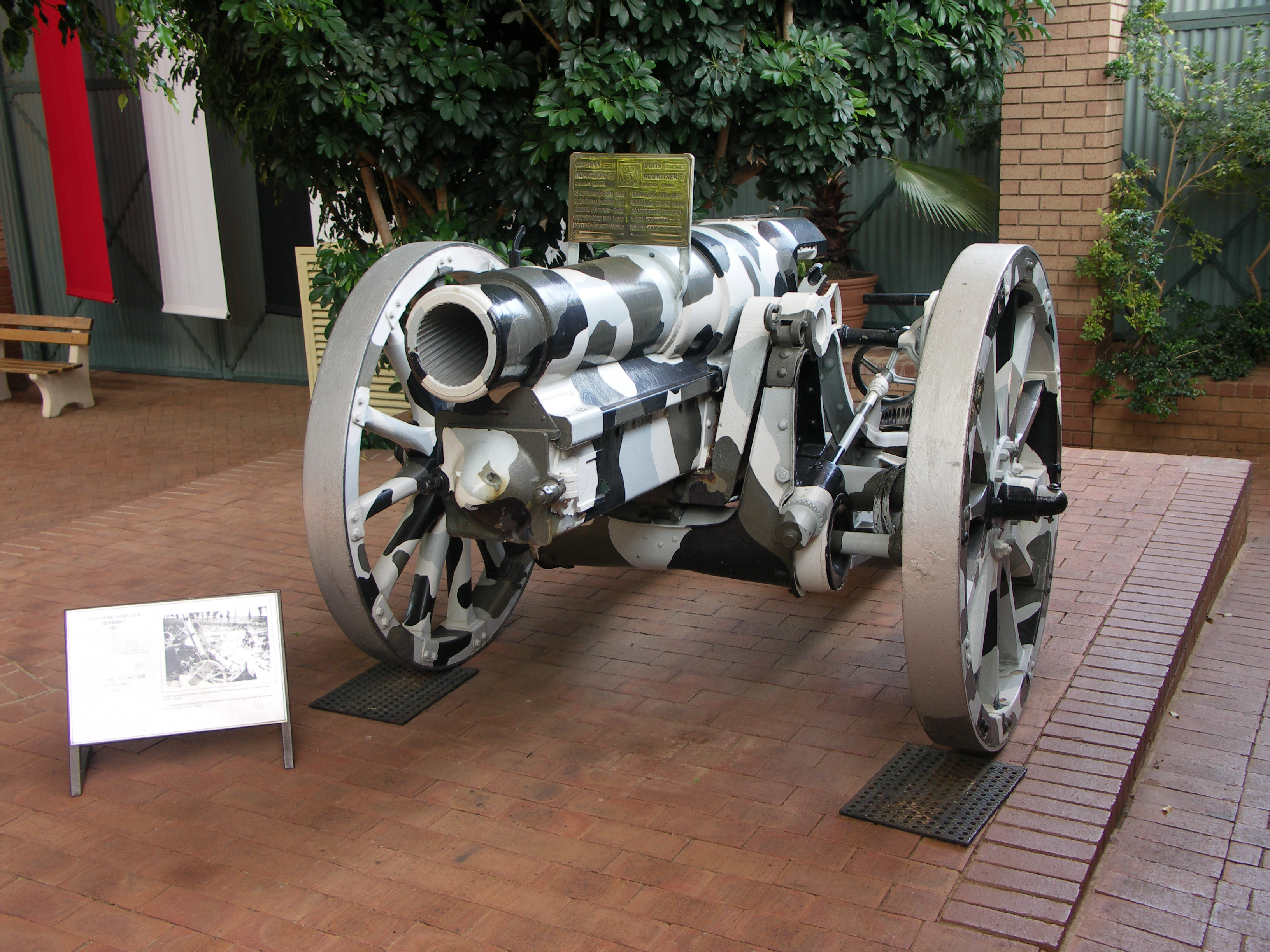 A German 15 cm sFH02 Howitzer from 1917 located at the South African National Museum of Military Hostory